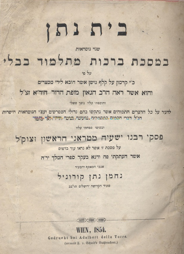 Isaiah Ben Mali, Di Trani; Nahman Nathan Coronel: Bet Natan: Shinui Nusha'ot be-Masekhet Berakhot Mi-Talmud Bavli Uve-Sofo Piske Yeshaya Mi-Trani ha-Rishon. Vienna; Gedruckt Bei A. Della Torre, 1854. With added Latin title page: Beth Nathan; Sive, Lectiones varias tractatus Berachoth...et decisiones Jesaiae di Trani. "Bet Natan" (The House of Nathan), containing a varied version of Berakot, MSS. Of Cairo, and decisions by Isaiah di Trani, the elder, with an introduction by Coronel (Vienna, 1854).